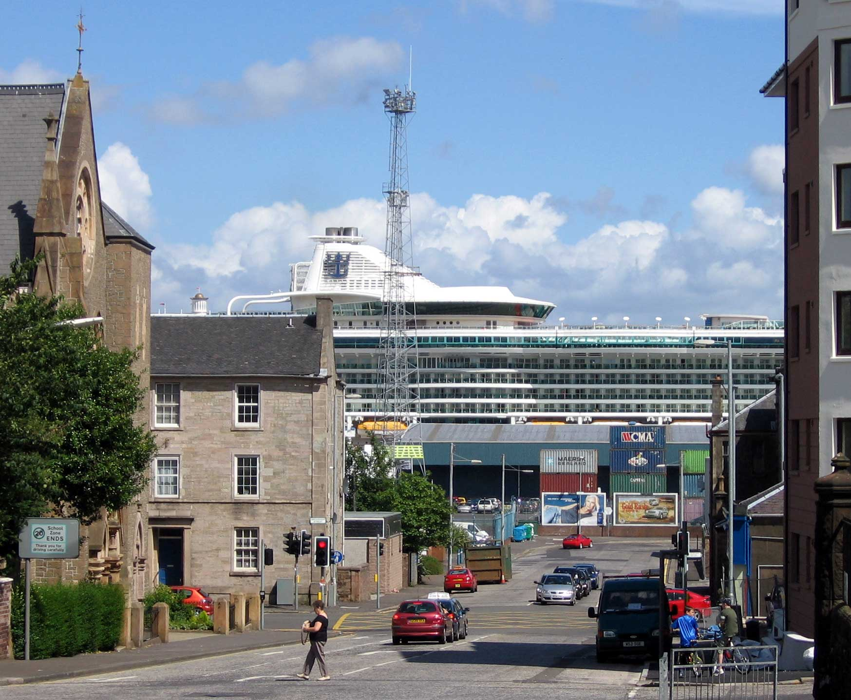 Street scene in Greenock, Scotland. with Cruise ship Jewel of the Seas at Clydeport Ocean Terminal on the Firth of Clyde, at 1.27pm BST (12.27 UTC).